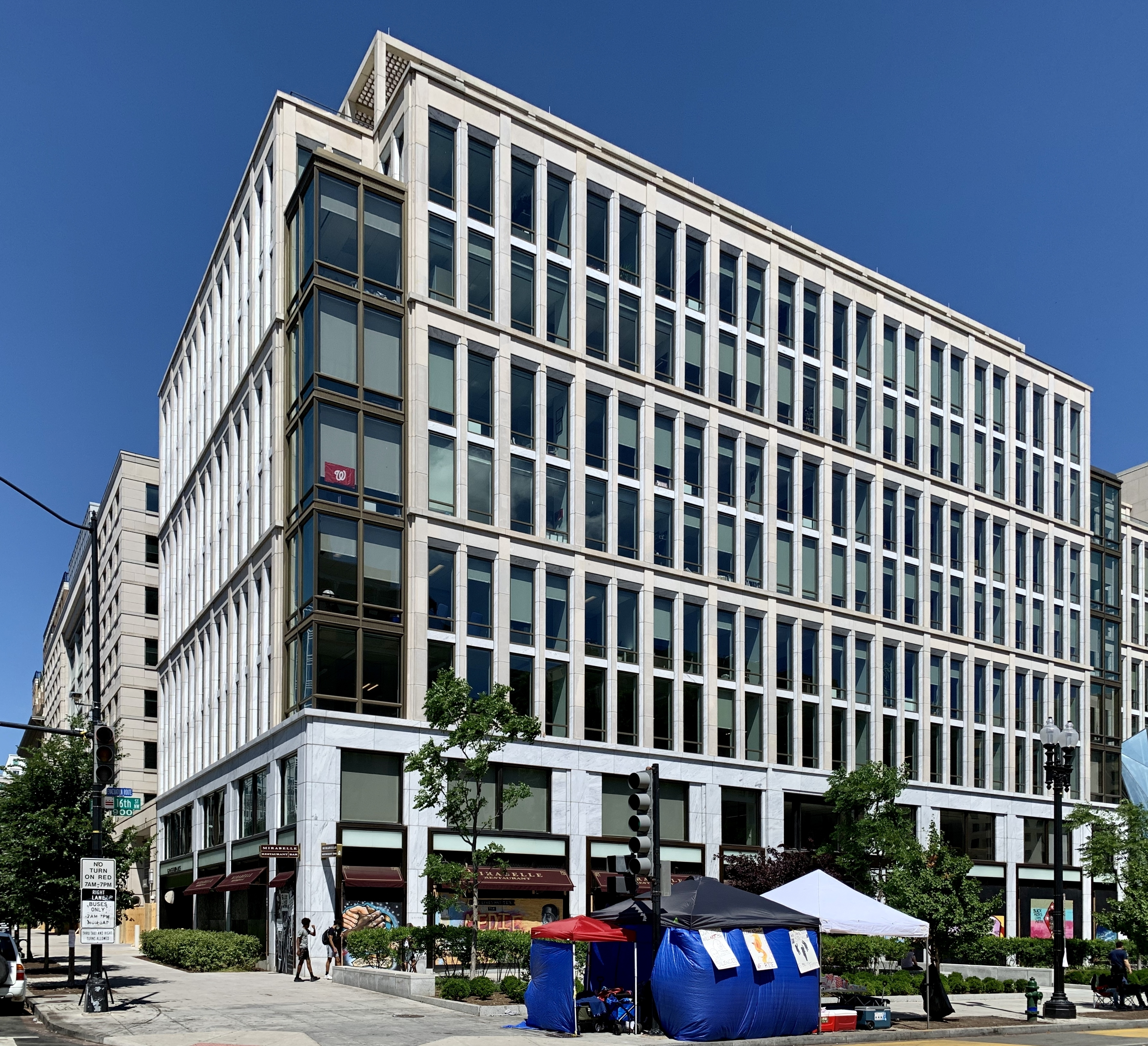 900 16th Street NW is an office building in Washington, D.C. that was completed in 2017 and designed by Robert A.M. Stern Architects. The building replaced the Third Church of Christ, Scientist, that was demolished in 2014.